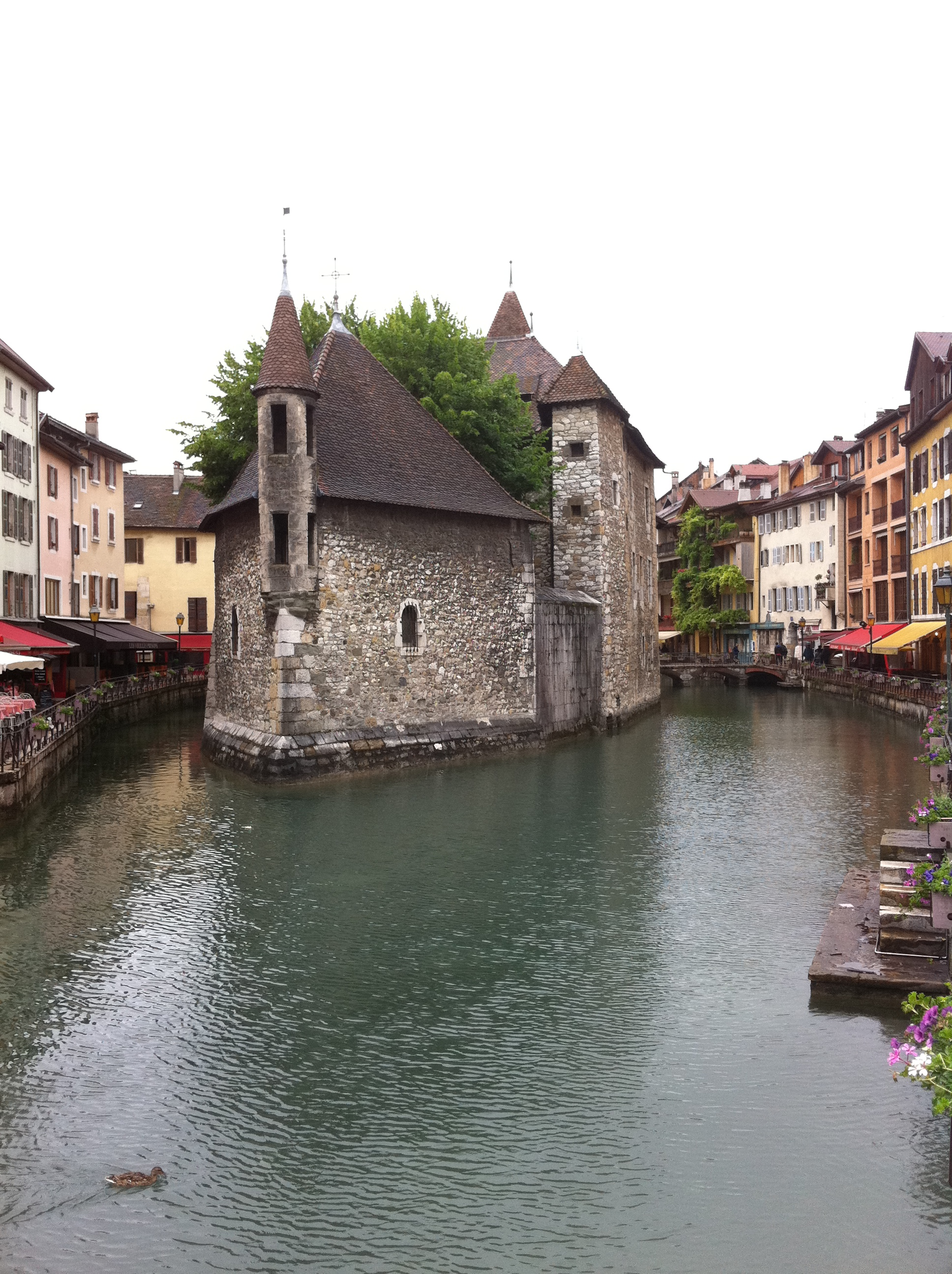 Annecy, France